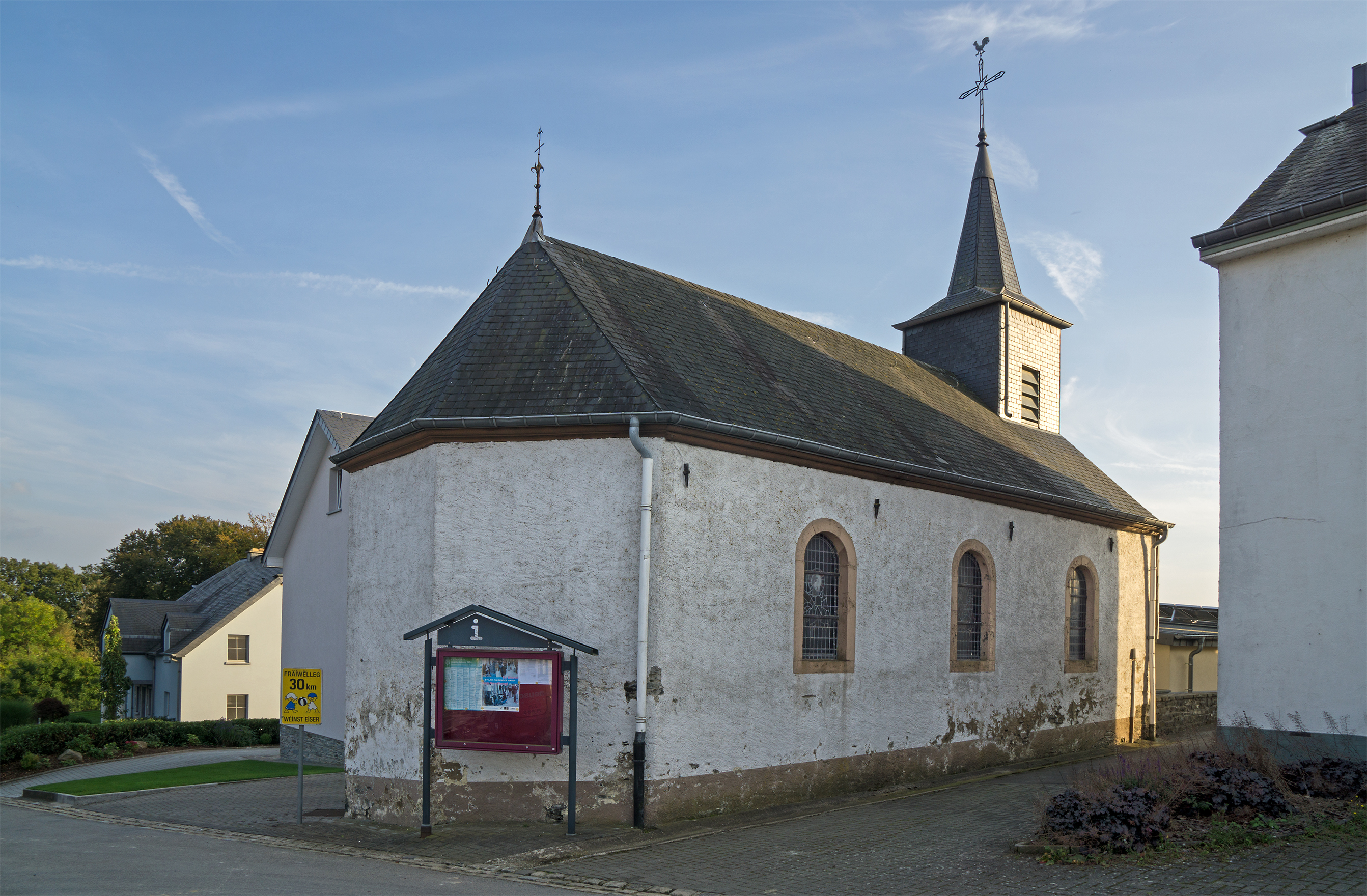 Chapel of Drinklange